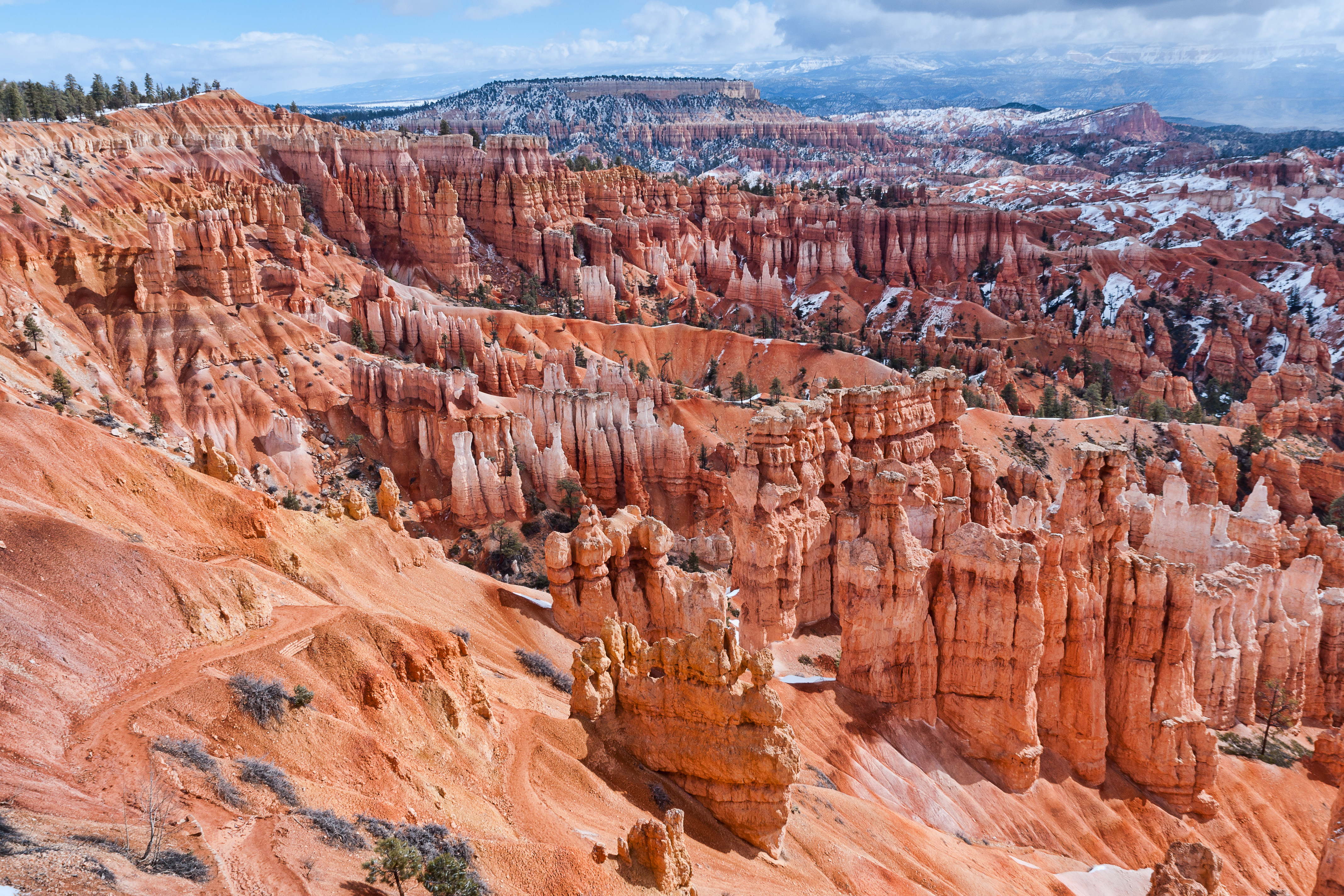 View of the Bryce Canyon